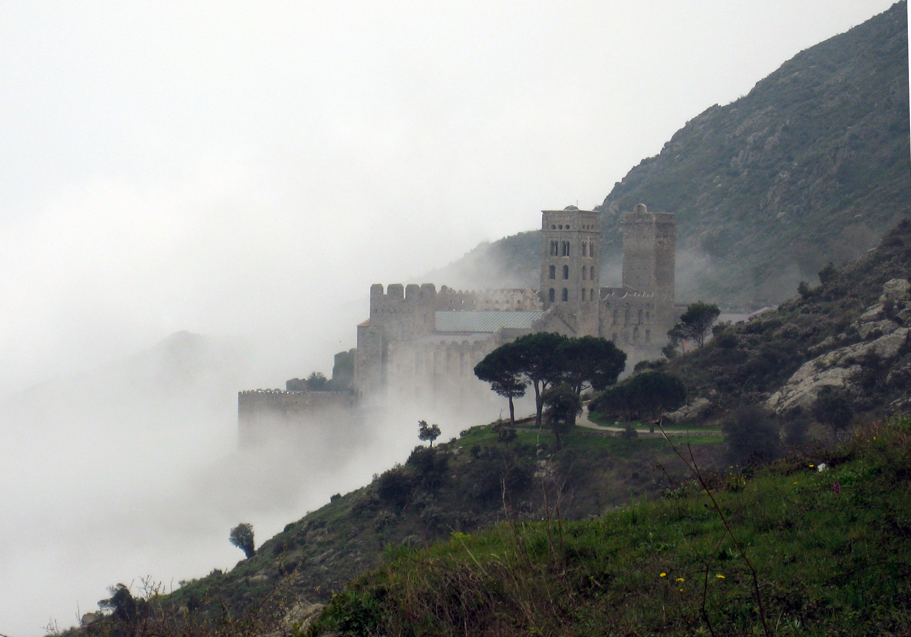 Former benedictine monastery of Sant Pere de Rodes in the municipality of Port de la Selva in the province of Girona in Catalonia (Spain).